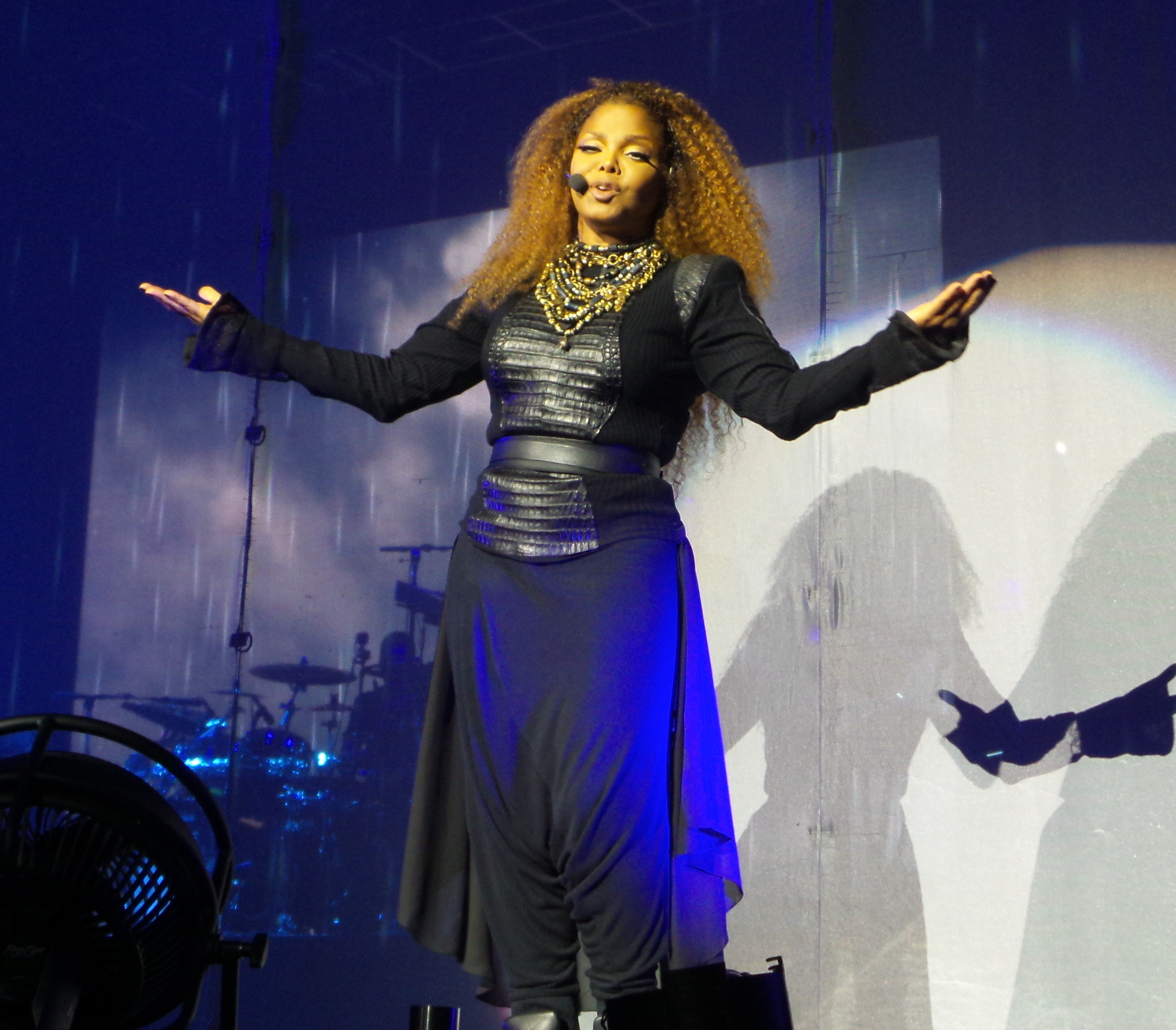 Janet Jackson Unbreakable Tour, Honolulu, Hawaii 2015